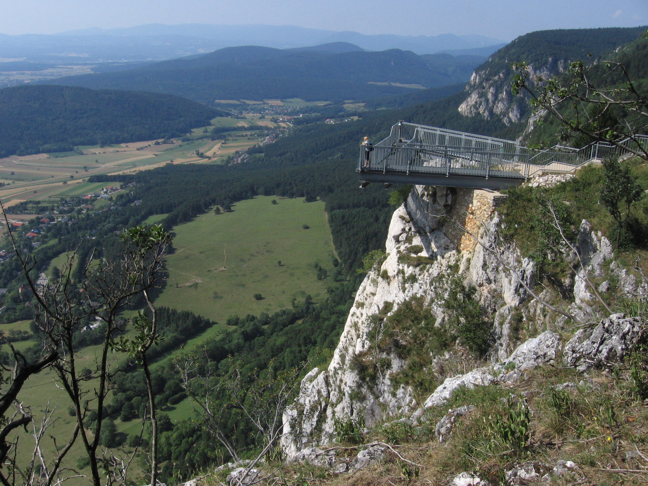 The Skywalk, an observation platform on the Hohe Wand mountain in Lower Austria